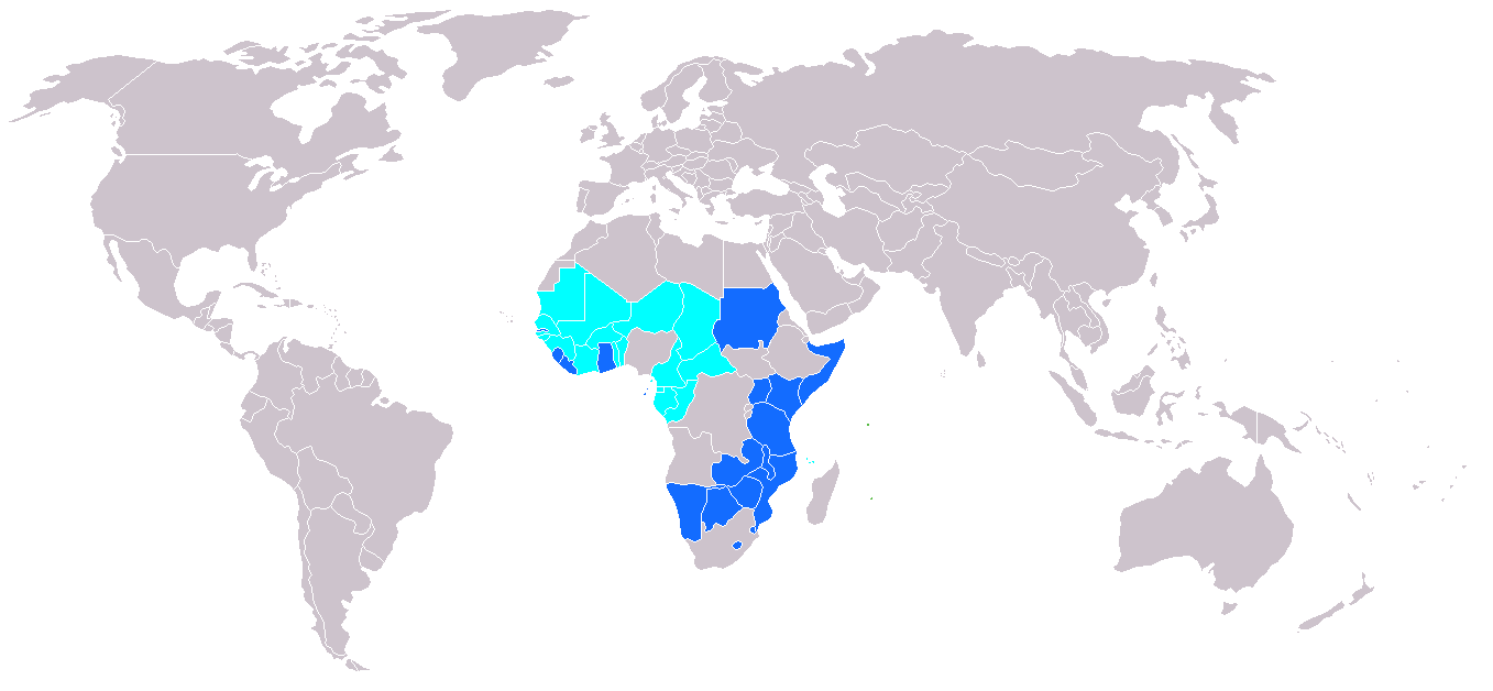 ARIPO and OAPI members as of Oct. 30, 2007. ARIPO members in blue; OAPI members in cyan.